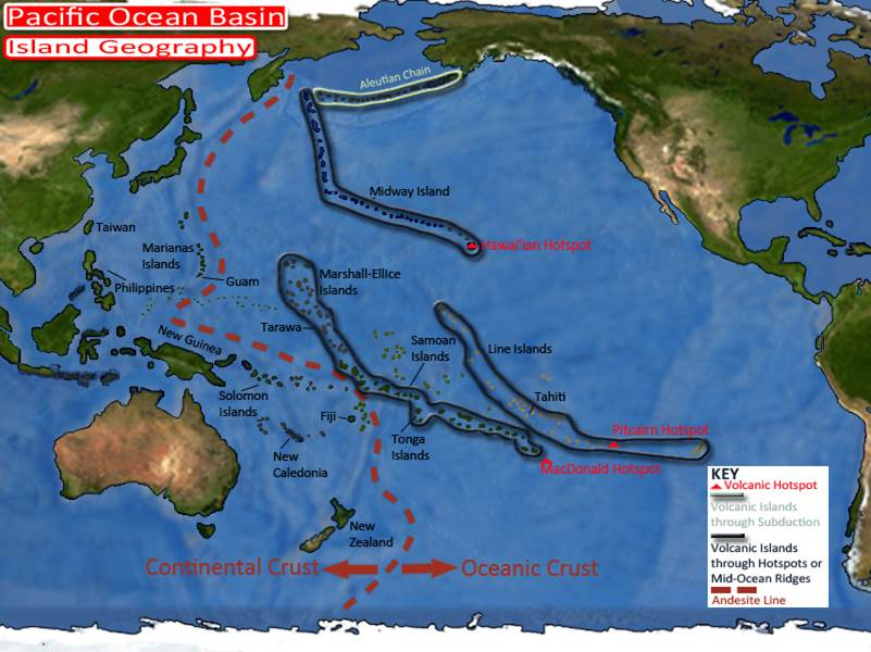 Various Islands of the Pacific Ocean basin made through hotspot and subduction processes.